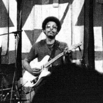 Guitarist Cornell Dupree in Montreux, Switzerland.